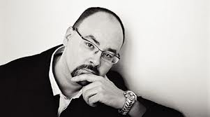 Author Carlos Ruiz Zafon